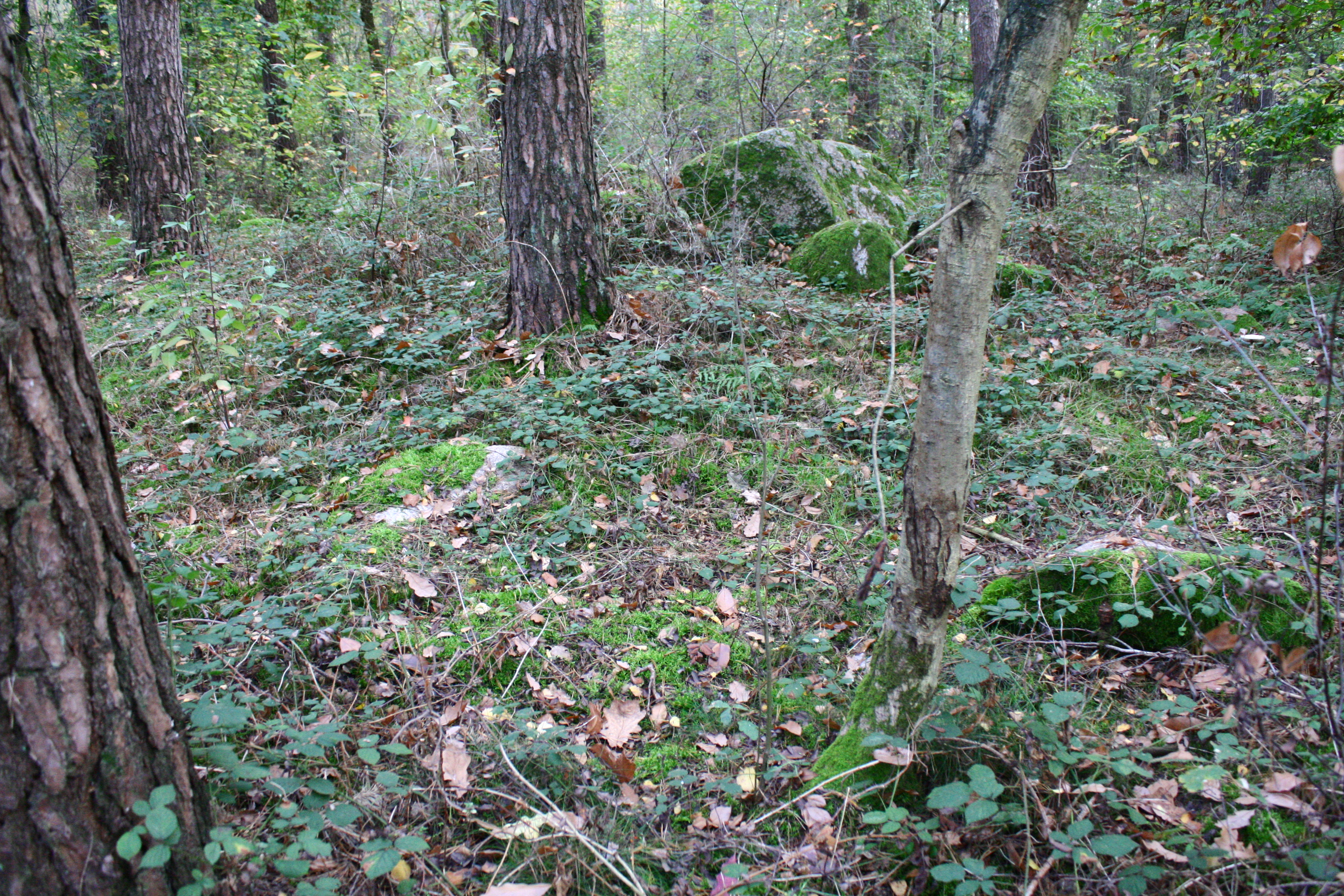 Megalithic tomb Haldensleben II 12-13